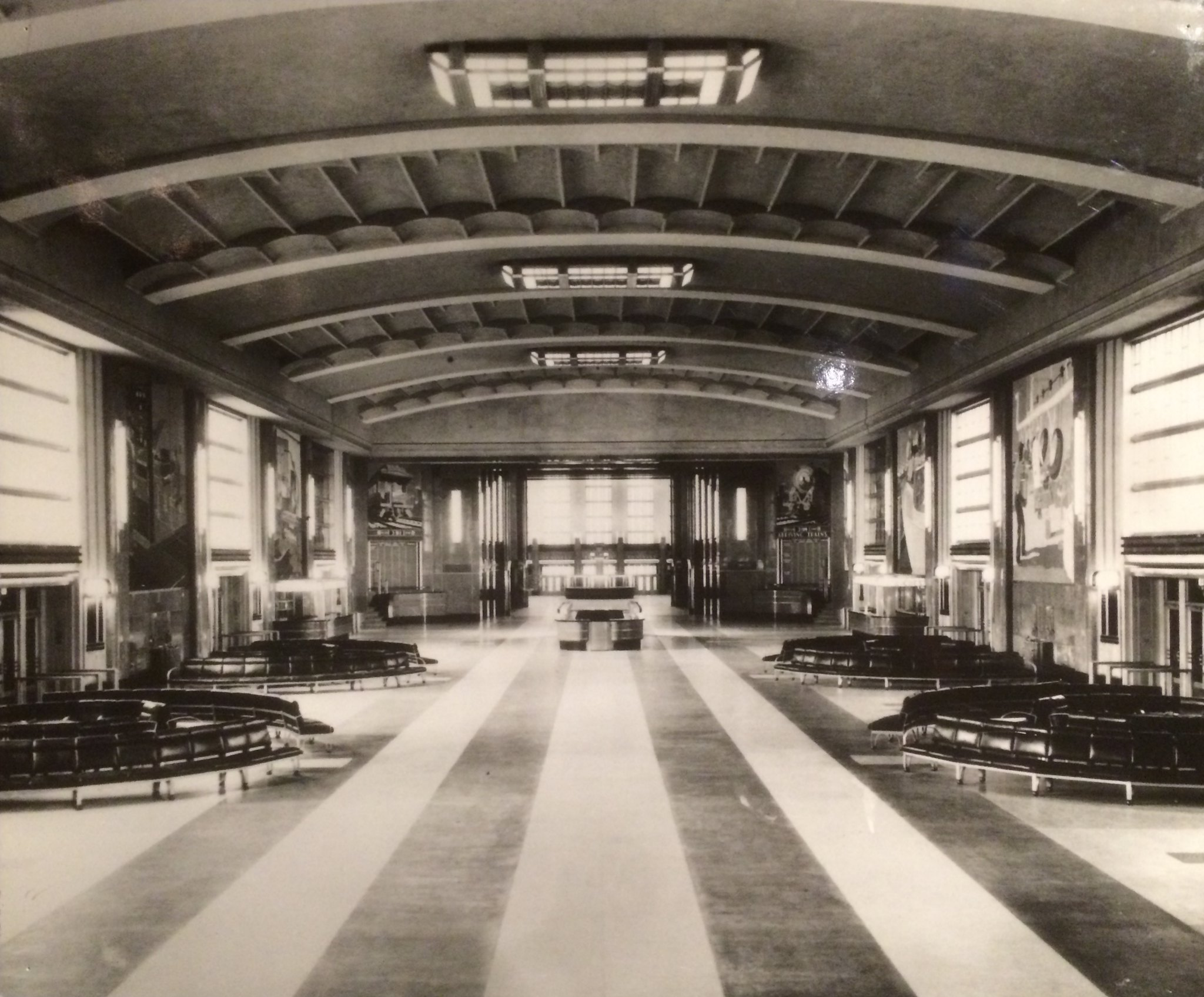 Cincinnati Union Terminal as depicted in Railway Age.